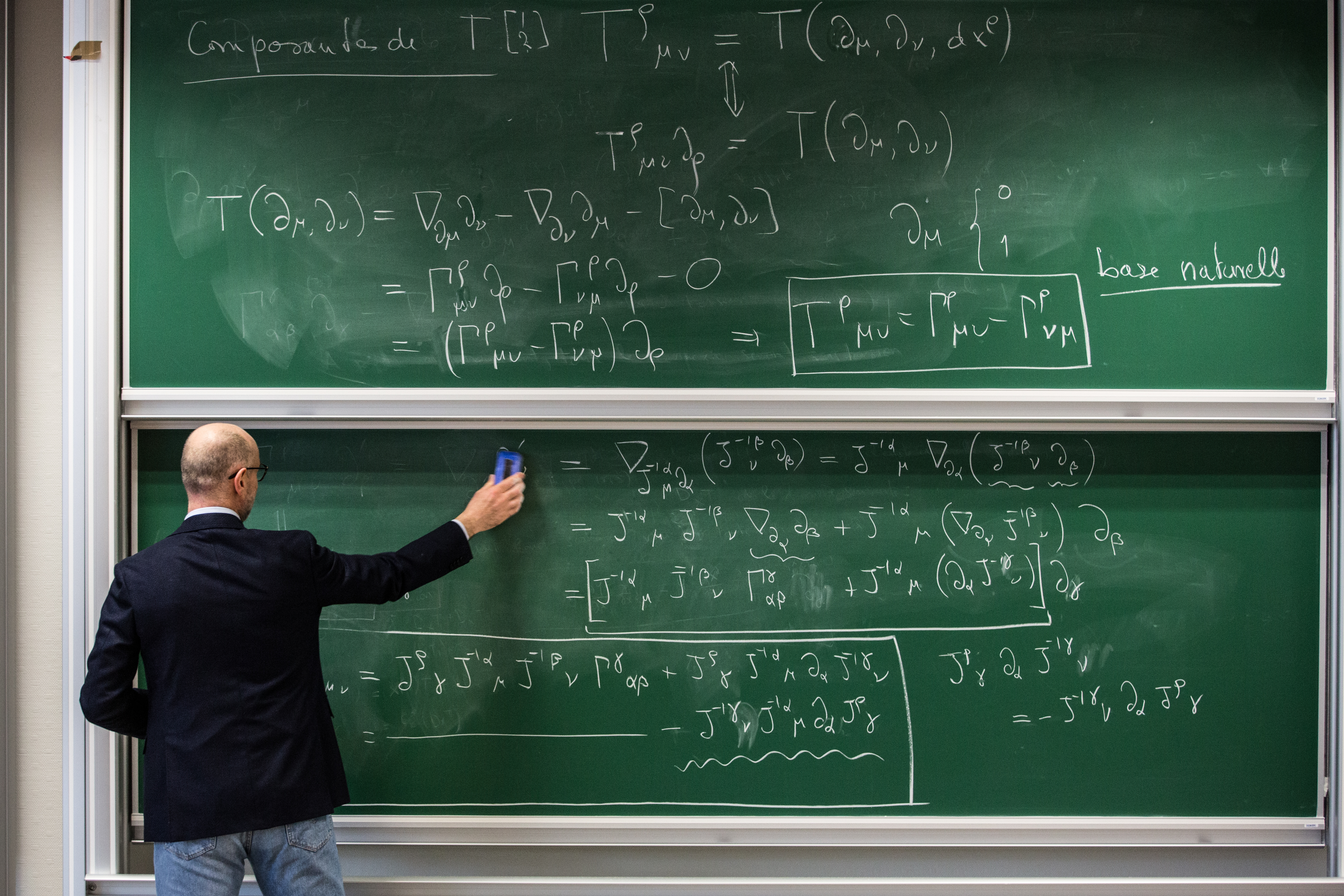 Reportage Centre de Physique Théorique (CPHT) Marios Petropoulos est chercheur au CNRS et enseignant au Département de Physique de l’École polytechnique. Il est membre du Centre de Physique Théorique (CPhT, Unité Mixte de Recherche du CNRS à l’École polytechnique) et responsable de l’équipe de Théorie des Cordes au seinde cette unité. Après un début de carrière en physique expérimentale de la matière condensée, il s’est orienté vers la physique théorique et mathématique. Ses intérêts couvrent les théories de supergravité, les trous noirs et autres objets exotiques ainsi que la description des cordes dans un environnement gravitationnel. Il a été le pionnier de l’étude du comportement des cordes dans un champ de gravitation de type anti de Sitter, dont le rôle s’est avéré fondamental dans le concept de correspondance holographique. Il participe régulièrement à des actions et conférences orientées vers le grand public. Crédit photographique : © École polytechnique - J.Barande